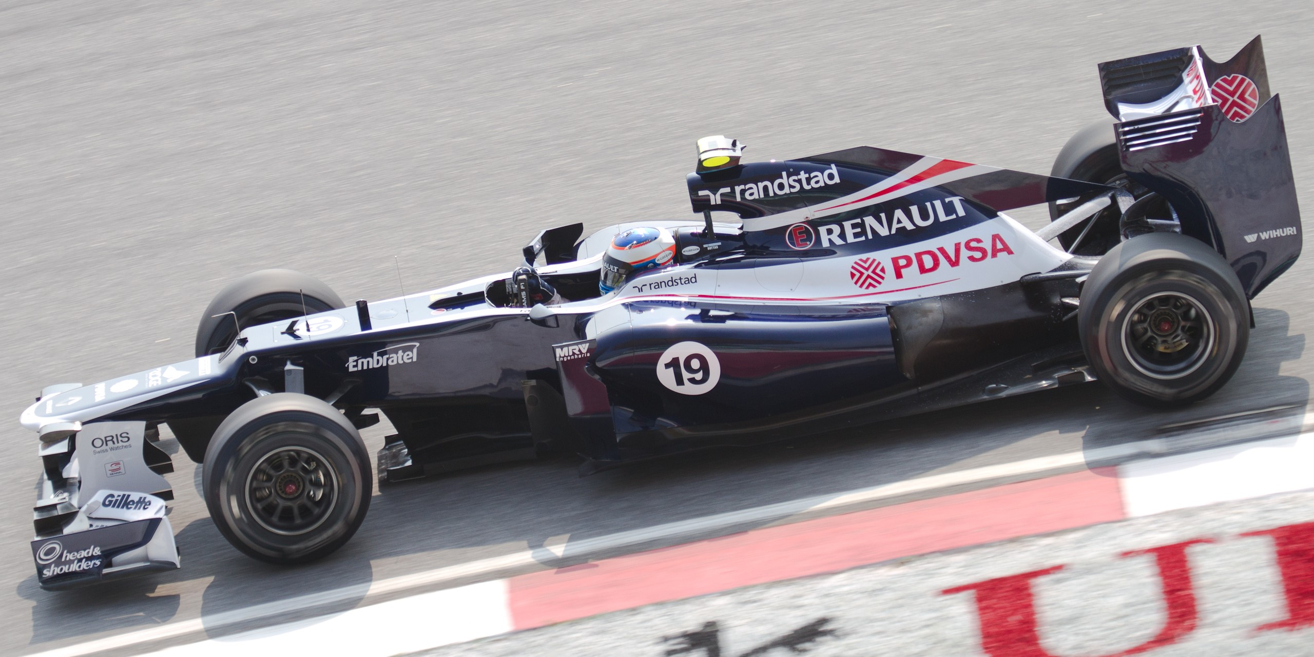 Formula One 2012 Rd.2 Malaysian GP: Valtteri Bottas (Williams) during the first practice session on Friday.